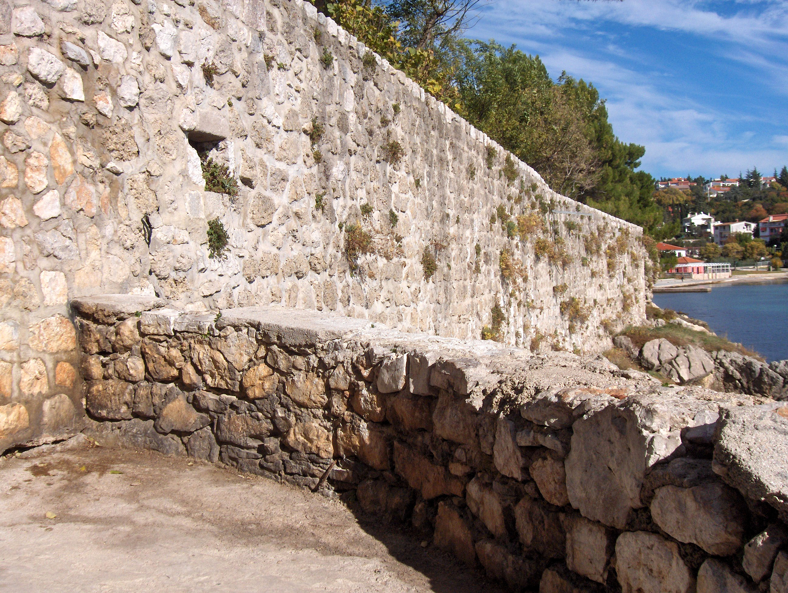 City wall; Baška, on the island of Krk, Croatia